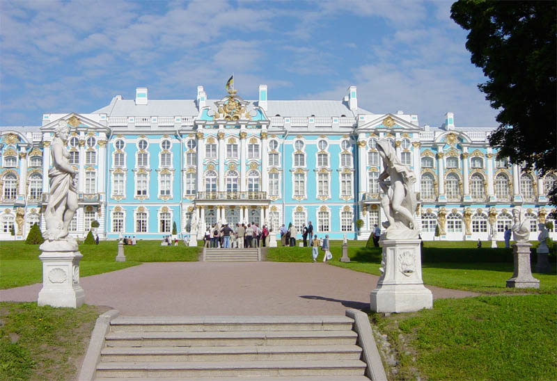 Pushkin (Russia), Catherine Palace